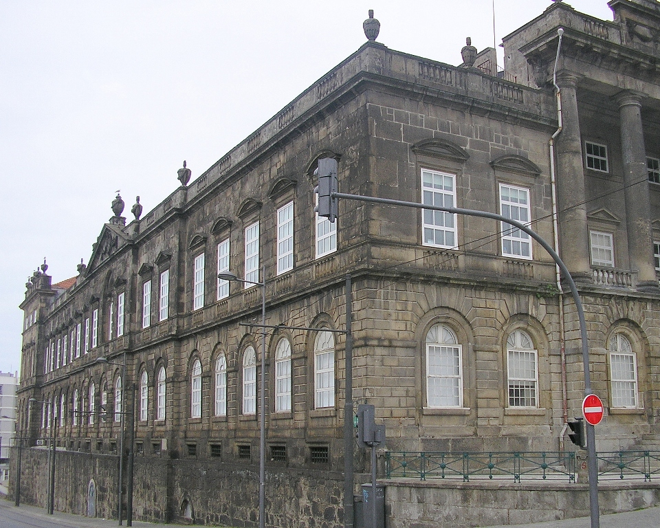 "Santo António" hospital (Southern wing) in Porto, Portugal